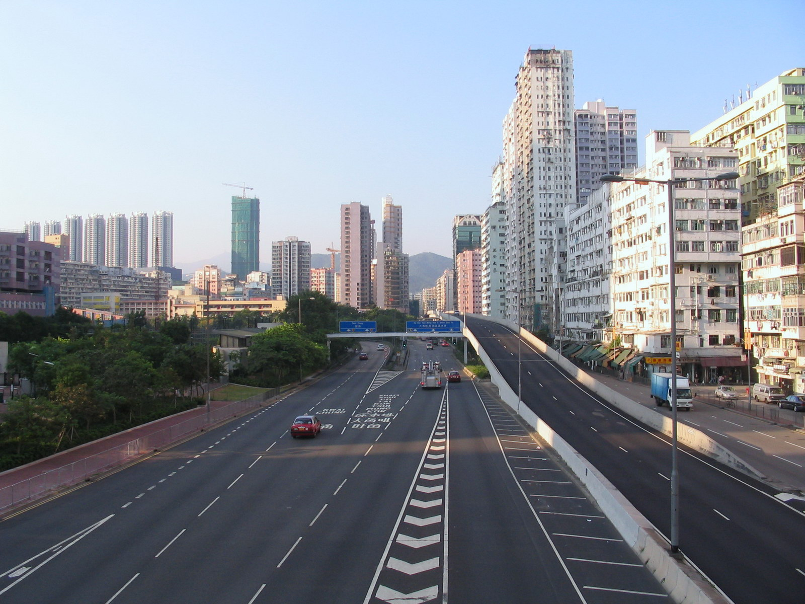 渡船街 登打士街 Ferry Street, Dundas Street